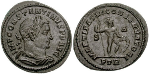 Constantinus I. 307-337 AD. Æ Follis (26mm, 6.72 g, 5h). Treveri (Trier) mint. Struck circa 307-308 AD. IMP CONSTANTINVS P F AVG, laureate, draped and cuirassed bust right, seen from rear MARTI PATRI CONSERVATORI, Mars standing right, holding reversed spear and shield set on ground; S A/PTR. RIC VI 774. (cuirassed bust). Good VF, dark brown surfaces.